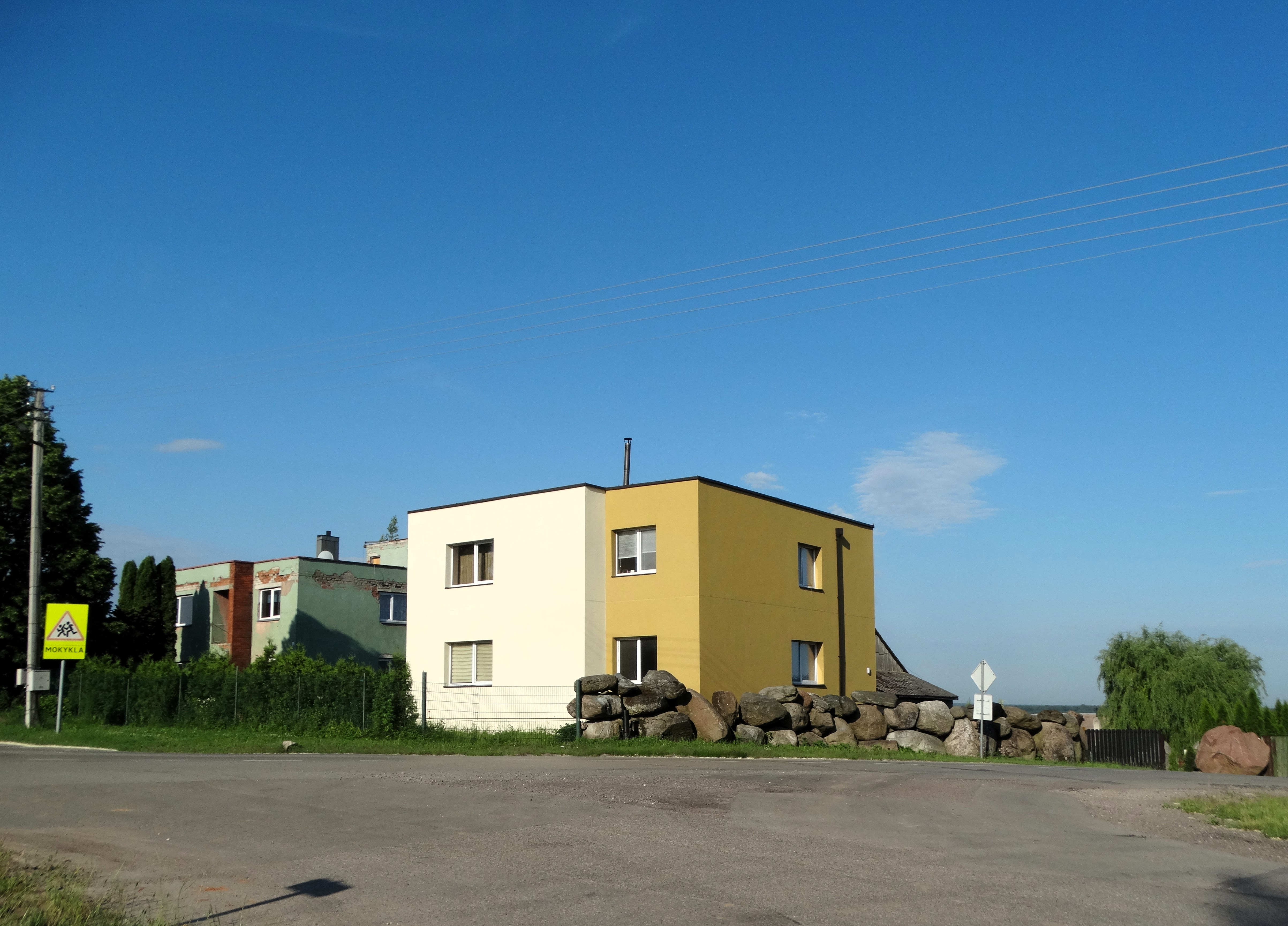 Batėgala, Jonava district, Lithuania